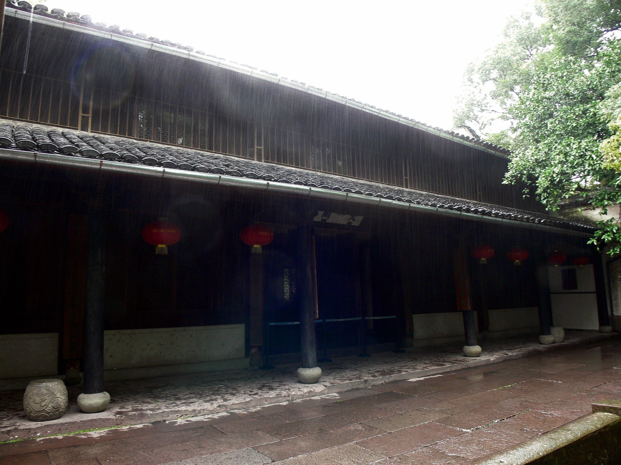 Ningbo Tian Yi Chamber Library